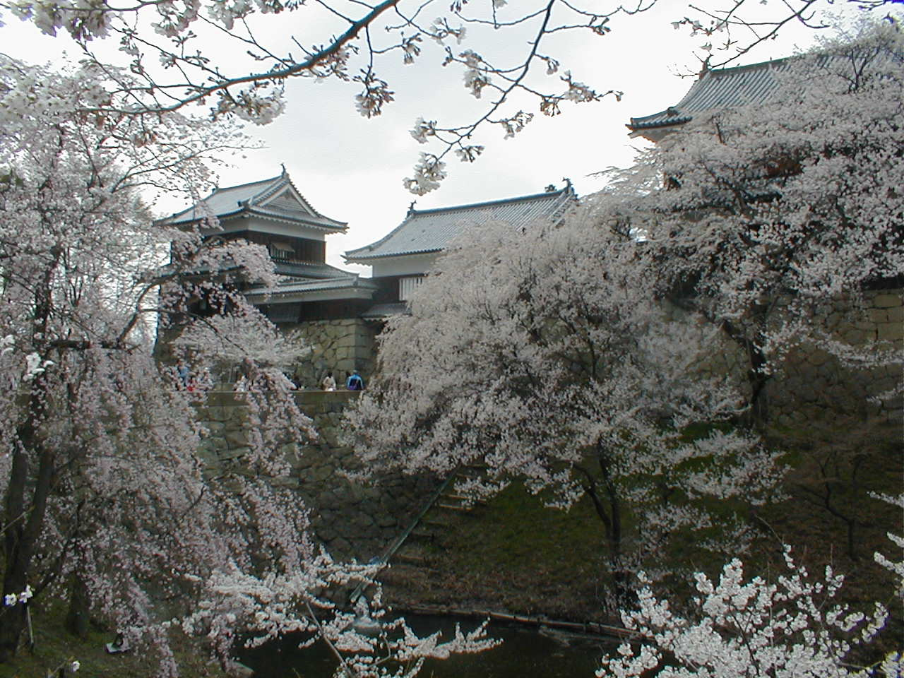 Ueda Castle in Spring, 2007